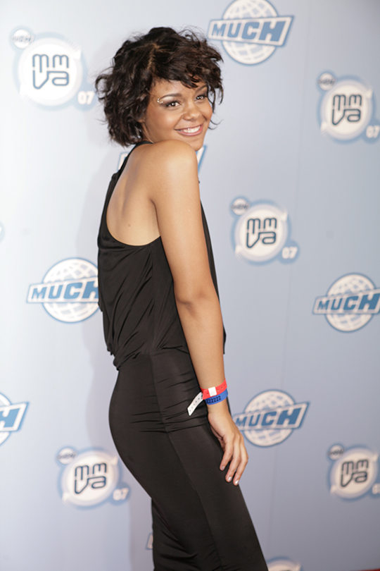 Fefe Dobson was an attendee at the 2007 MuchMusic Video Awards, held the night of Sunday, June 17, 2007 in Toronto, Ontario, Canada.